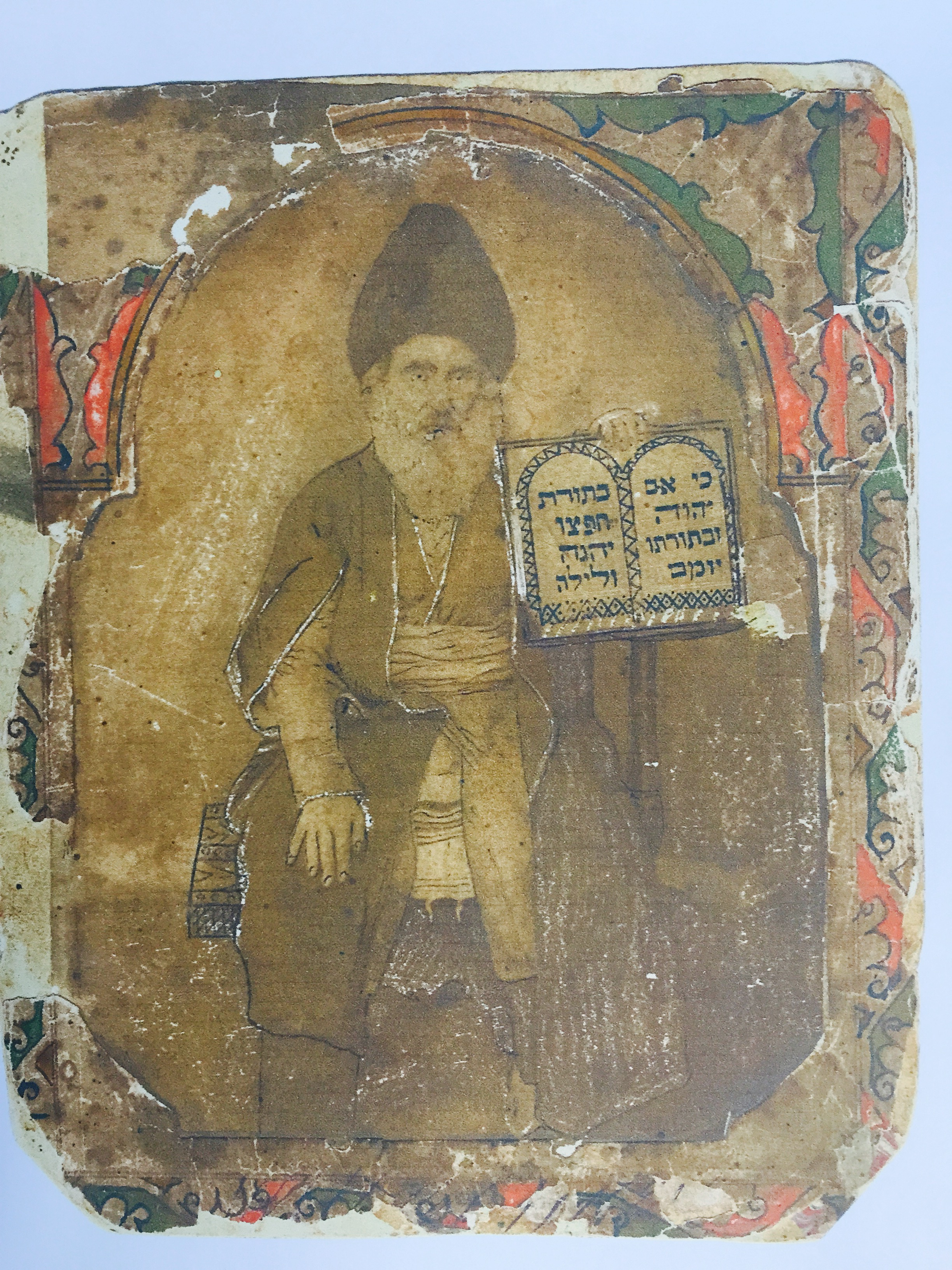 Gershon Bar Reuven (GAVAR) (1815-1891)